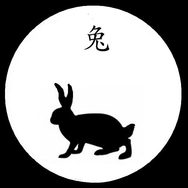 lievre de l'astrologie chinoise, originellement OMBRE CHINOISE LIEVRE de Alice-astro avec correction du caractere "lapin"